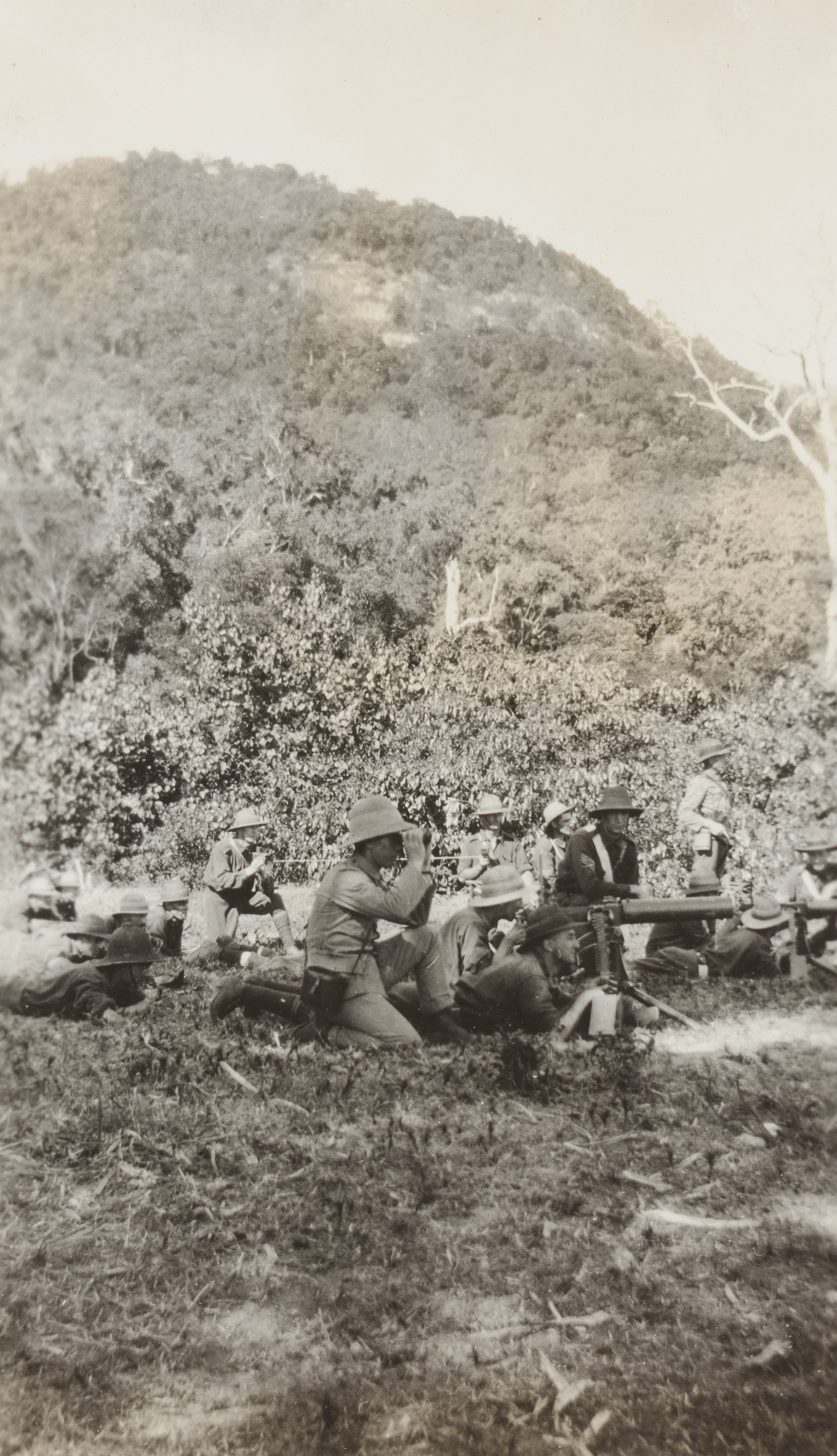 Australian Machine Gun Section training, Palm Island, from album of Photographs Used in the Book "How Australia Took German New Guinea : An Illustrated Record of the Australian Naval & Military Expeditionary Force", 1914, by F. S. Burnell PXA 2165